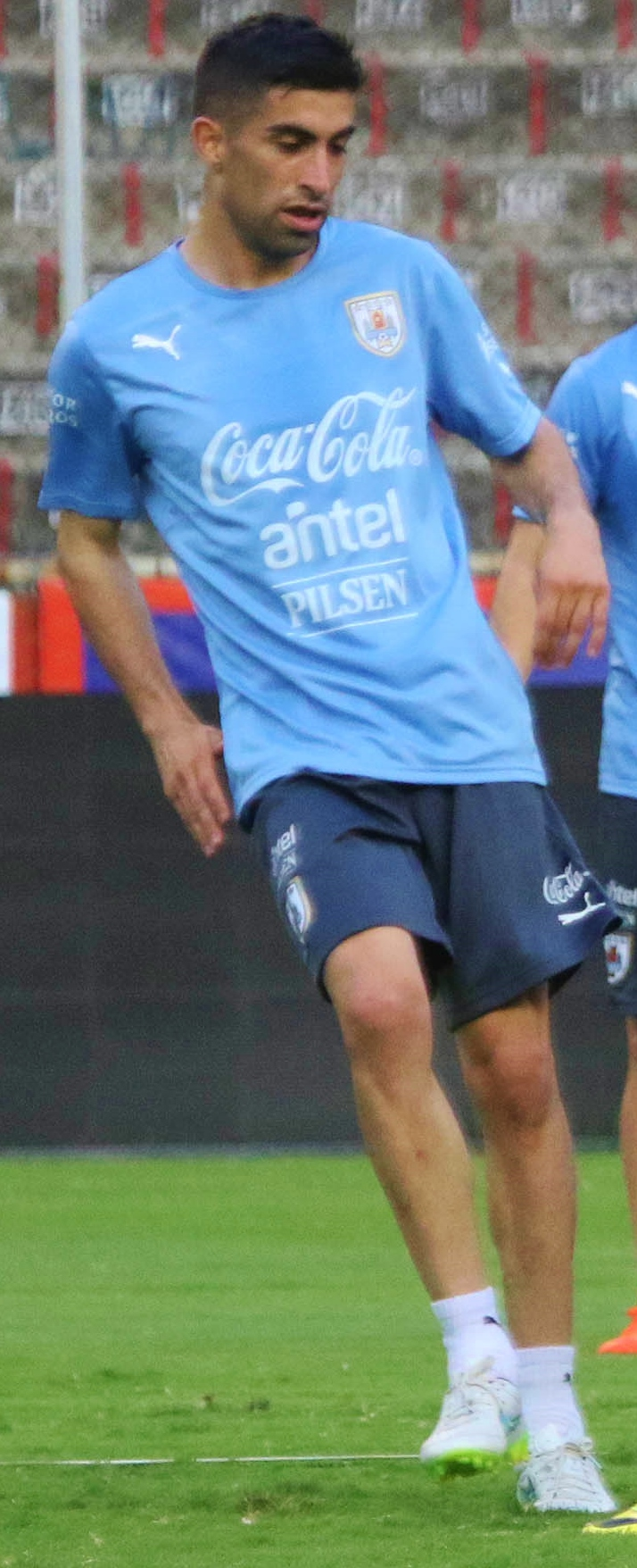 Guayaquil, 09 de nov. del 2015 (Andes).-El primer grupo de jugadores de la selección de Uruguay que llegó a Ecuador realizó una práctica en el estadio Monumental.Foto:César Muñoz/Andes Michael Santos